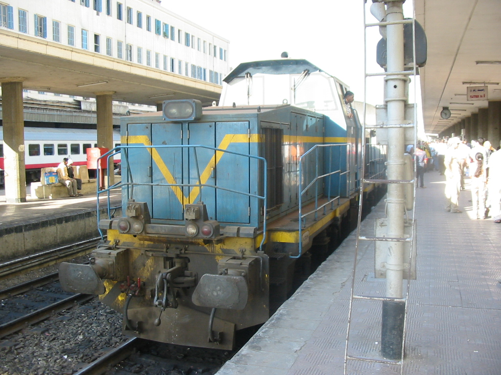 An Alstom-made ENR GA900 diesel locomotive.